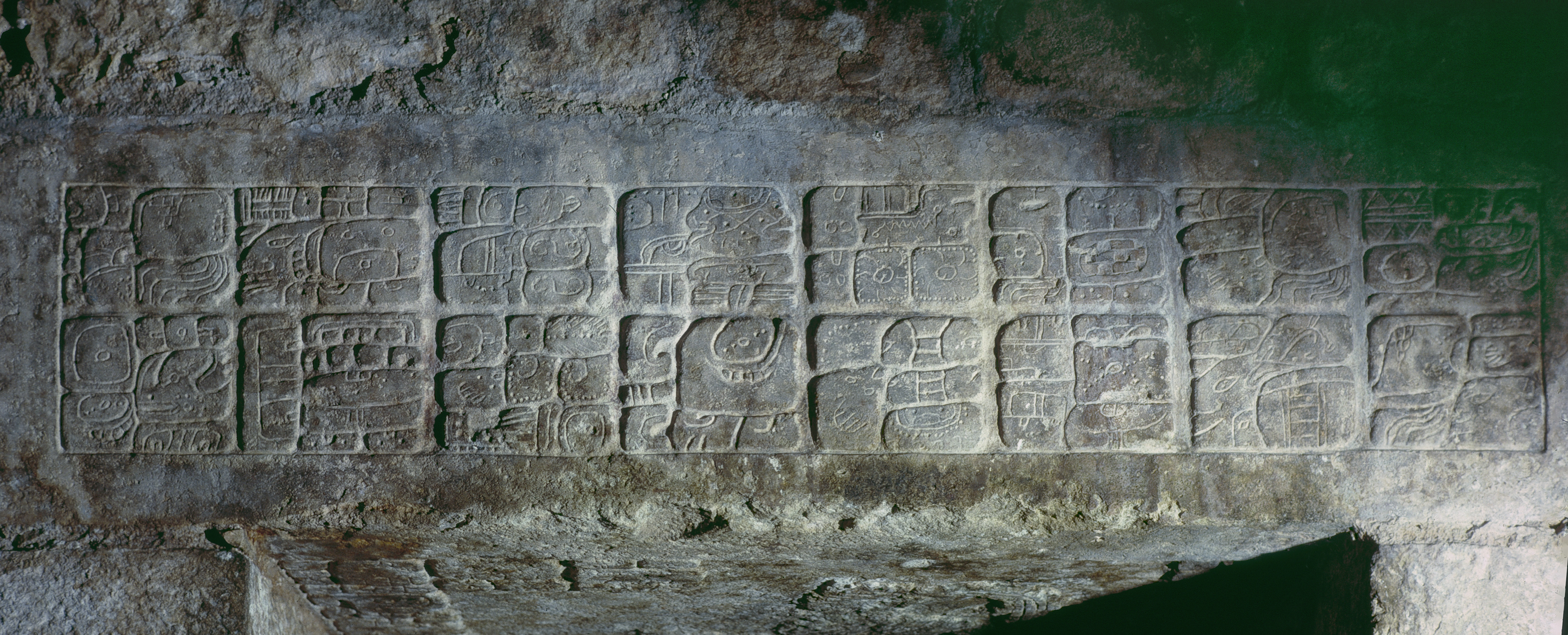 Chichen Itza, Yucatan, Mexico: Akab Dzib (lintel, front)